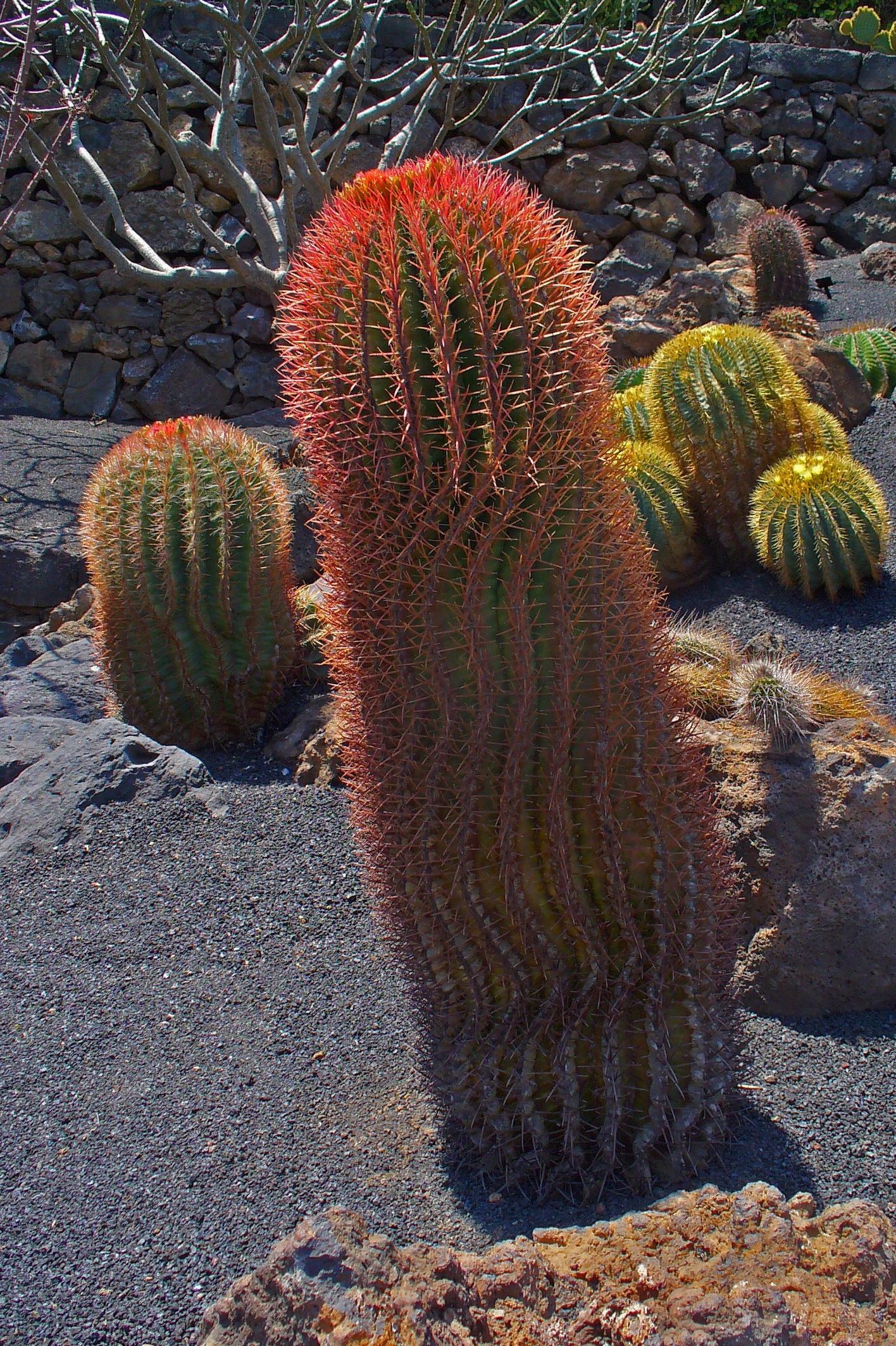 Habitus; Jardin de Cactus, Guatiza, Lanzarote, Canary Islands, Spain.